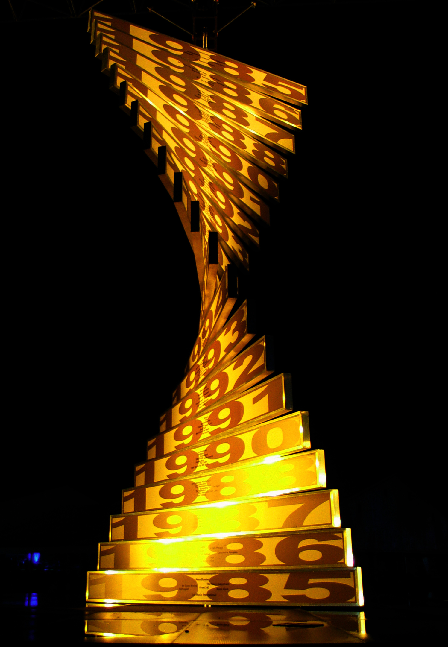 20 time pukkelpop; Installation for Pukkelpop's 20th anniversary in 2006